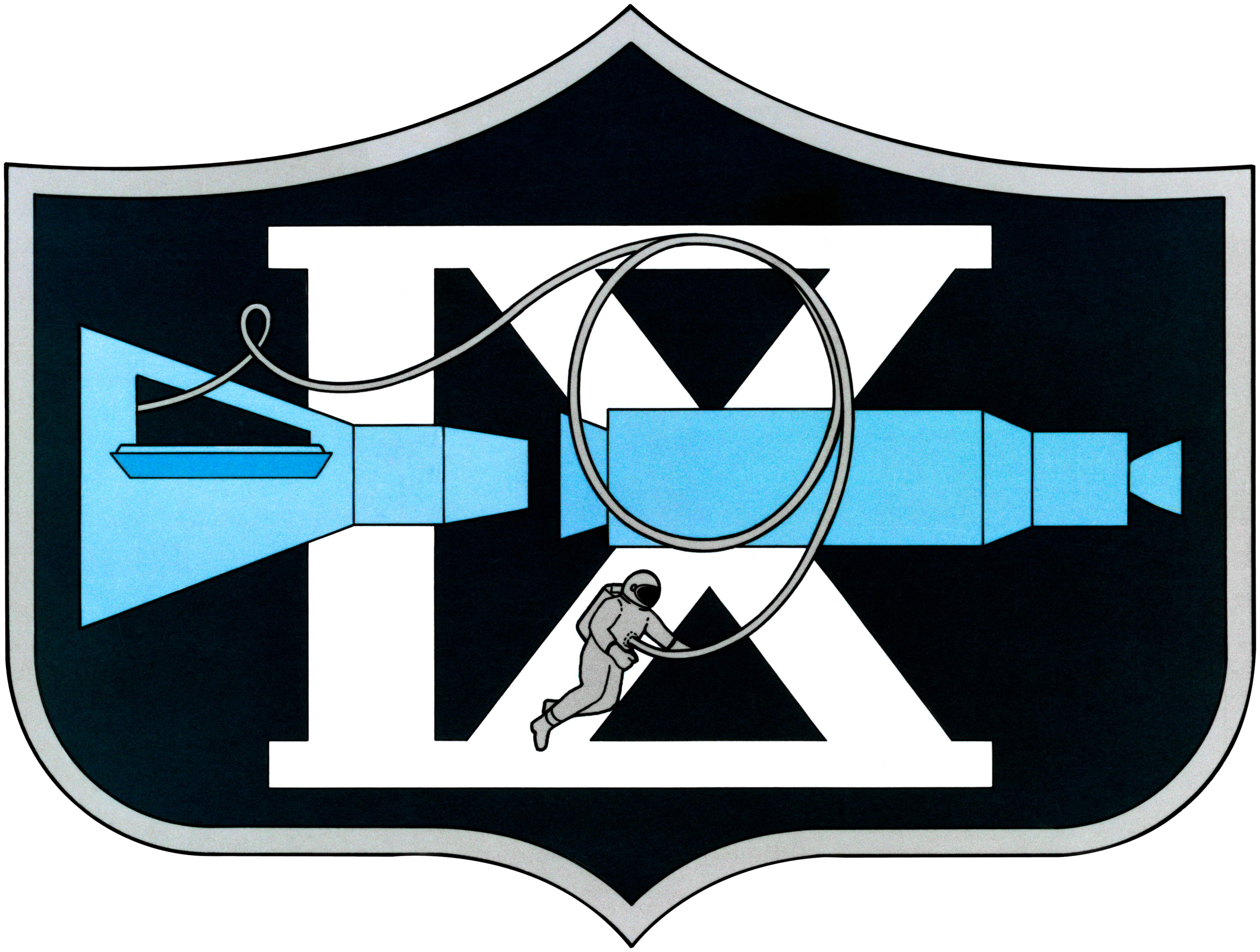 Gemini 9 Patch Ensignia of the GT-IX Space Flight. Roman numeral indicates ninth flight in the Gemini series. Two spacecraft symbolize rendezvous and docking of Gemini with Agena. Astronaut and umbilical tether line denotes planned Extravehicular Activity EVA.